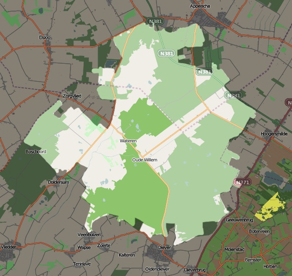 This map may be incomplete, and may contain errors. Don't rely solely on it for navigation.